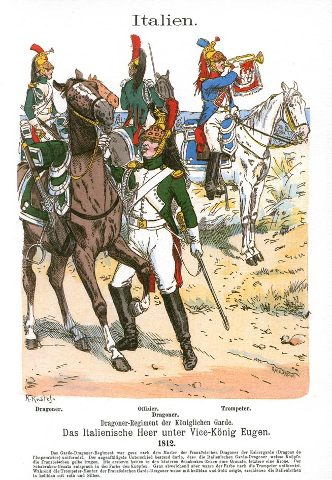 Italien. Das italienische Heer unter Vice-König Eugen. 1812